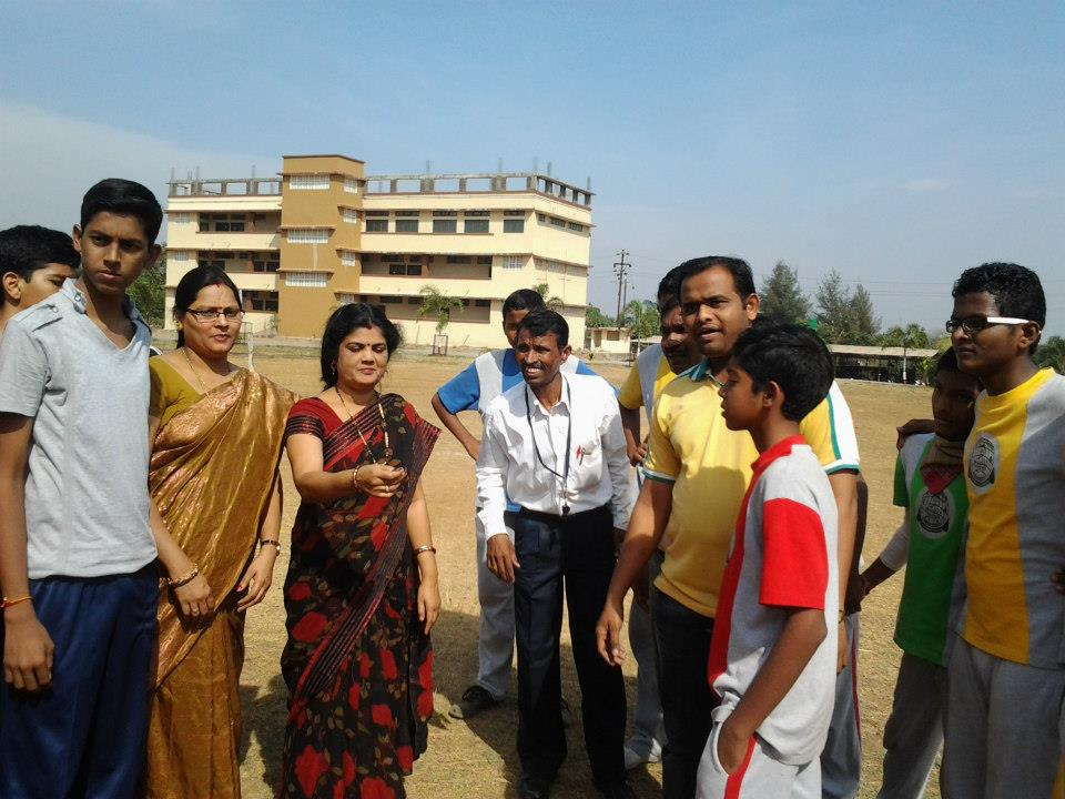 The final match toss time view.